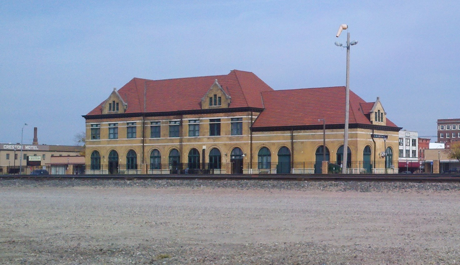 Chicago, Burlington and Quincy Railroad depot in Creston, Iowa.